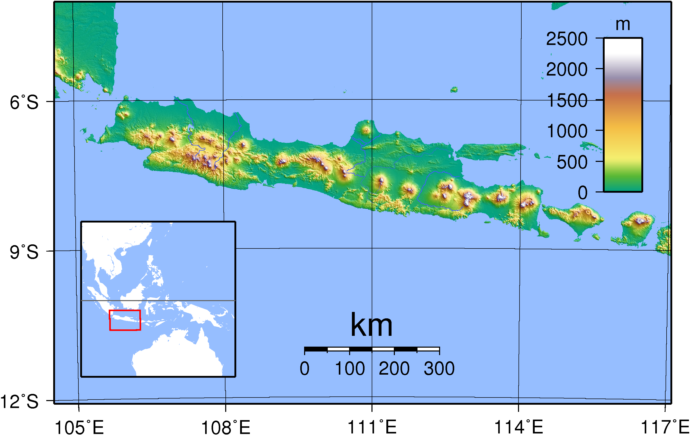 Topography of Java. Created with GMT from publicly released SRTM data. For locator version, see Image:Java Locator Topography.png